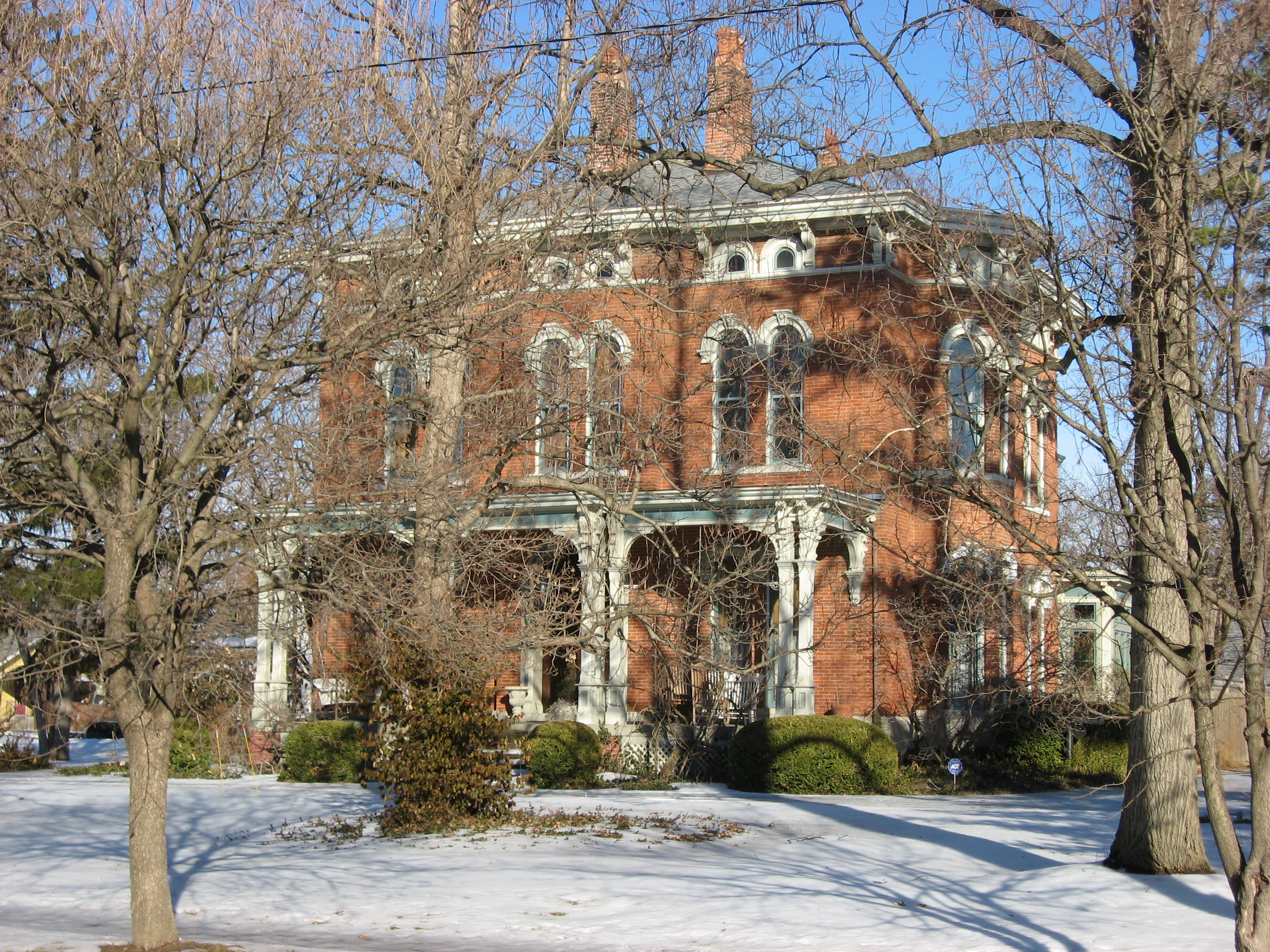 Front of the Julian-Clark House, located at 115 S. Audubon Road in Indianapolis, Indiana, United States. Built in 1873, it is listed on the National Register of Historic Places, and it is part of a Register-listed historic district, the Irvington Historic District.